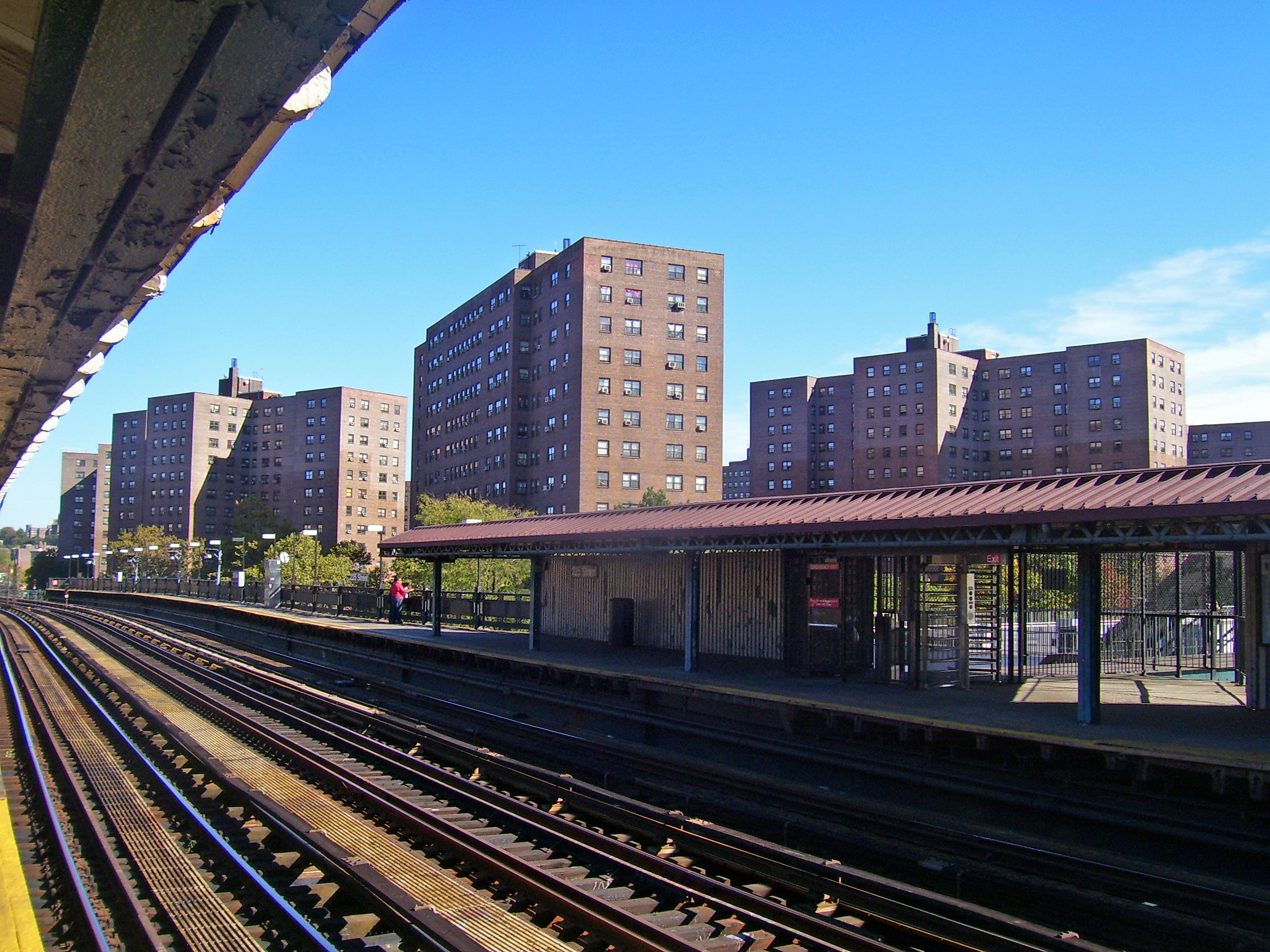 View northbound up line from Marble Hill station on New York City Subway